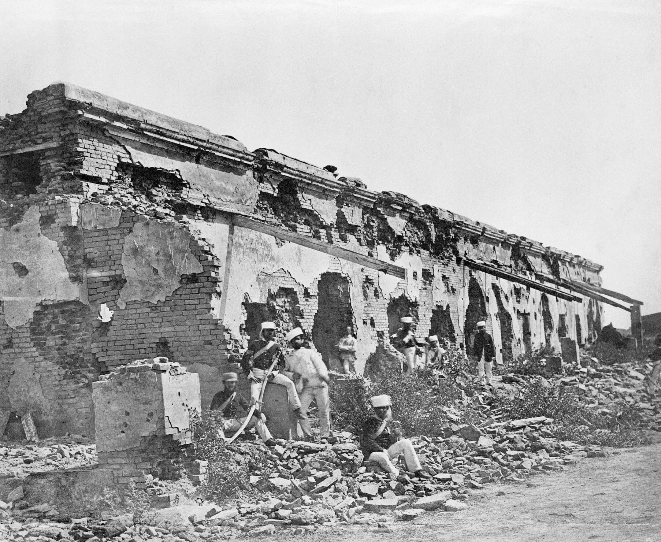 The Indian Mutiny 1857-1859 Aftermath of the Siege of Cawnpore. Soldiers of the 1st Madras Fusiliers seated amongst the remains of the British entrenchment de fences to barracks at Cawnpore which General Sir Hugh Massy Wheeler surrendered in June 1857. Cawnpore was the British military headquarters for the District of Oudh. The massacre of British women and children which took place there was one of the worst atrocities of the Mutiny.